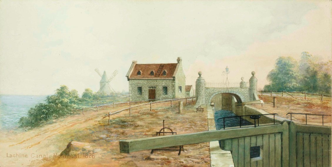 Lachine Canal, Montreal. Royal Ontario Museum, 980.104.6